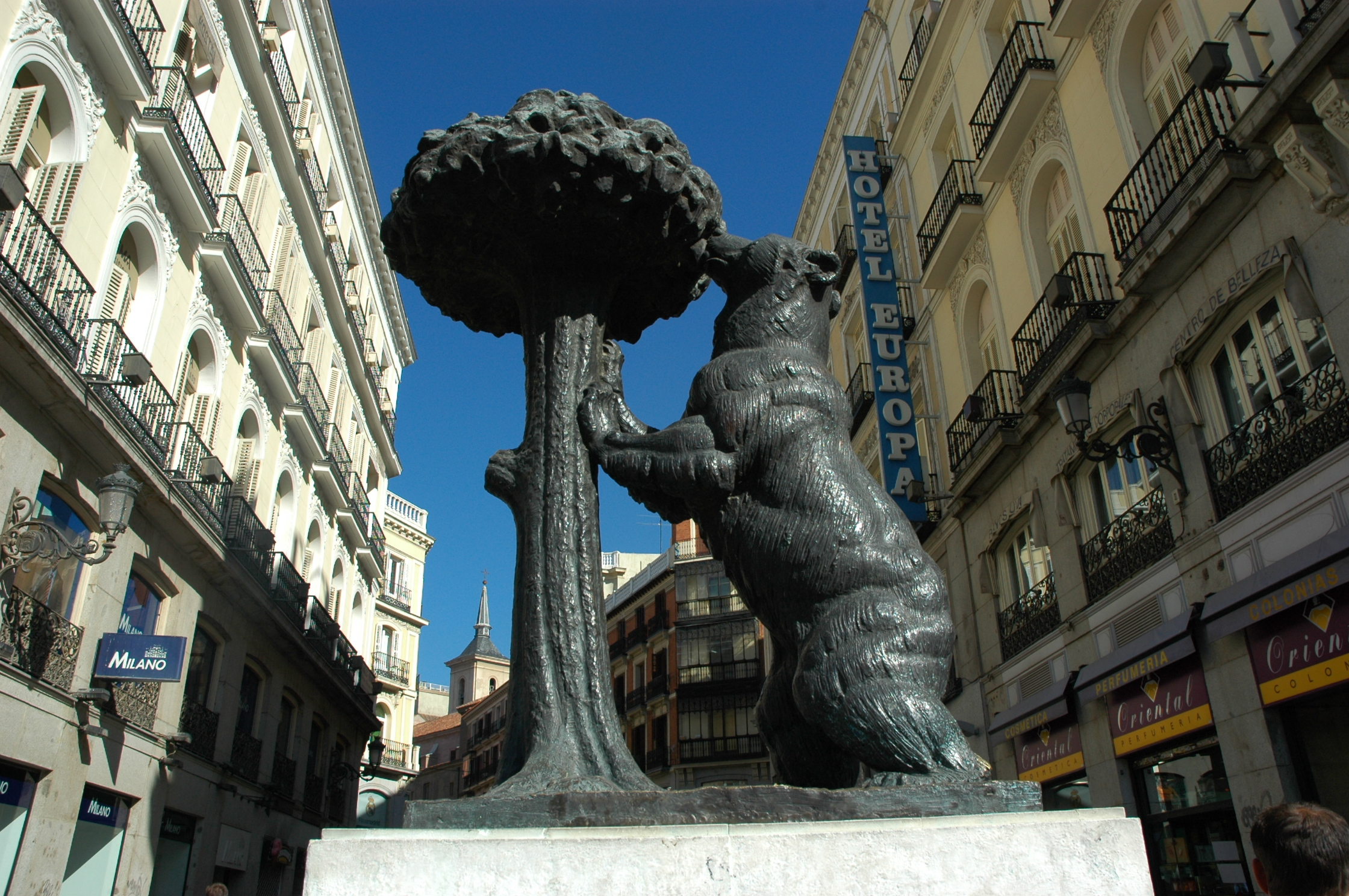 El Oso y el Madroño ("The Bear and the Arbustus") at the Puerta del Sol (square) in Madrid (Spain). Heraldic symbol of the city, made of bronze by sculptor Antonio Navarro Santafé in 1966 and inaugurated on January 10, 1967. In the background, Calle del Carmen (street).